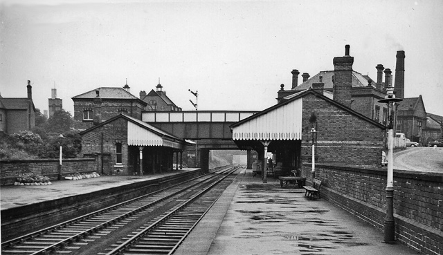 Burslem Station. View SE, towards Etruria and Stoke-on-Trent; ex-North Stafford 'Loop Line', (Stoke) - Etruria - Hanley - Burslem - Tunstall - Kidsgrove. The station closed to passengers when local services were withdrawn on 2/3/64, the loop remaining as a diversionary route until 3/1/66, when goods traffic at Burslem ceased with the closure of the route.